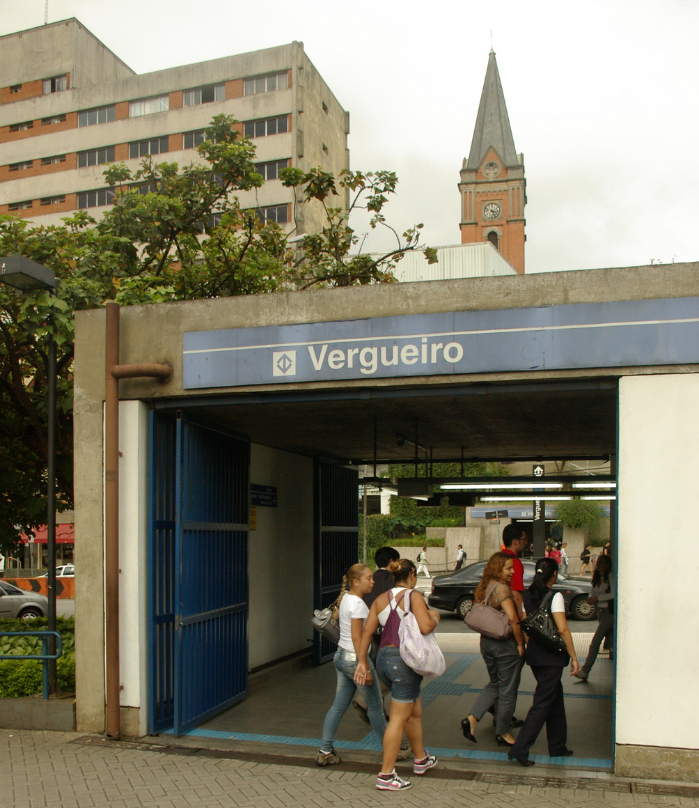 Vergueiro Metro station in São Paulo, Brazil